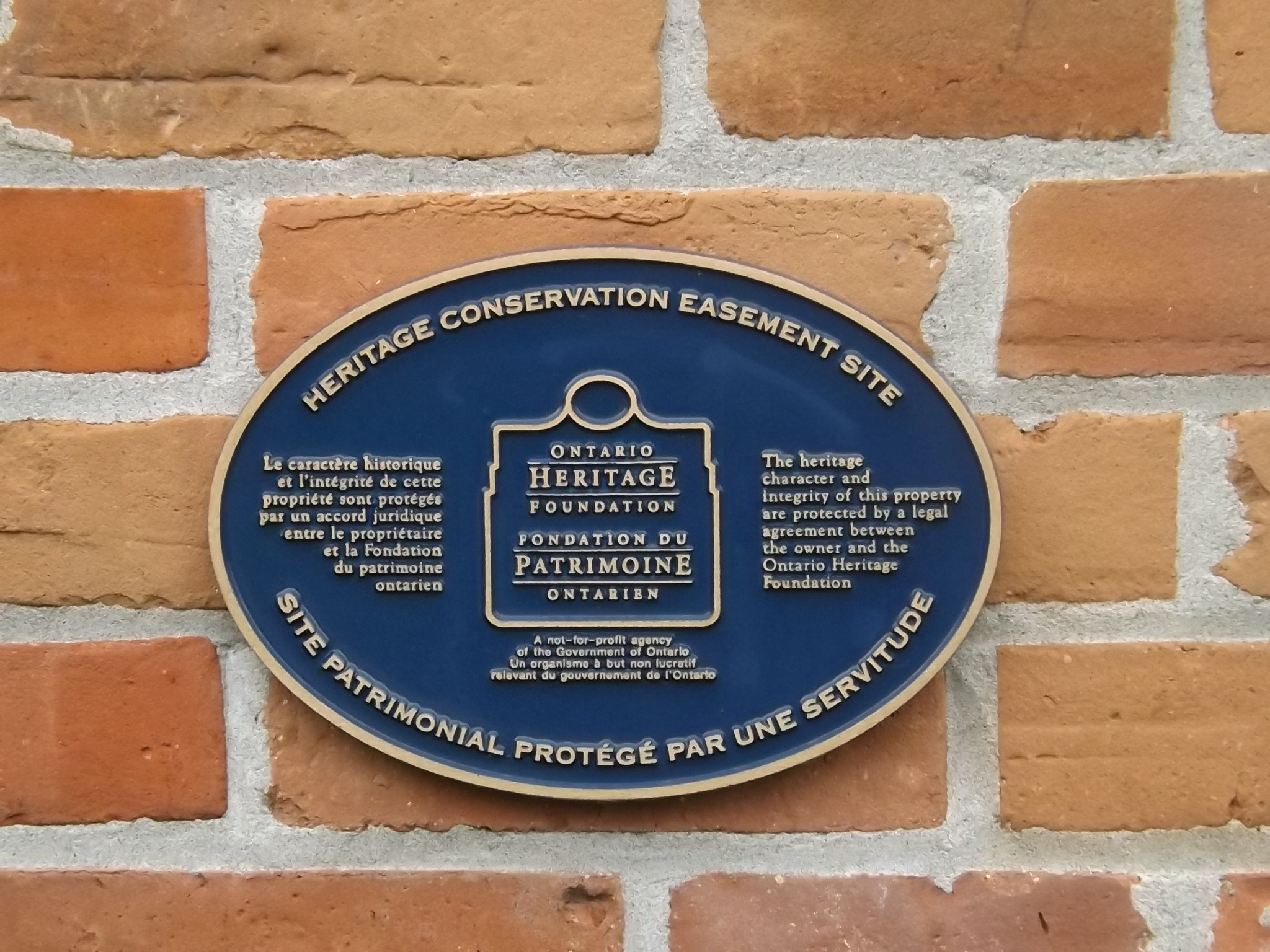 Ontario Heritage Easement plaque on the wall of the Peacock House at The Briars in Georgina, ON.